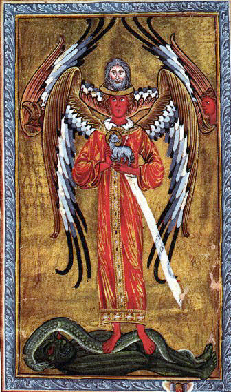 Representation of the first vision in Liber divinorum operum. The upper wings are equal to the Party arc. The wings below are equal to the upper tangent arc. The figure is formed by the upper and the lower sun pillar. The lamb in his hand is the sun and the snake beneath his feet is the 22�-ha1o together with the lower tangent arc